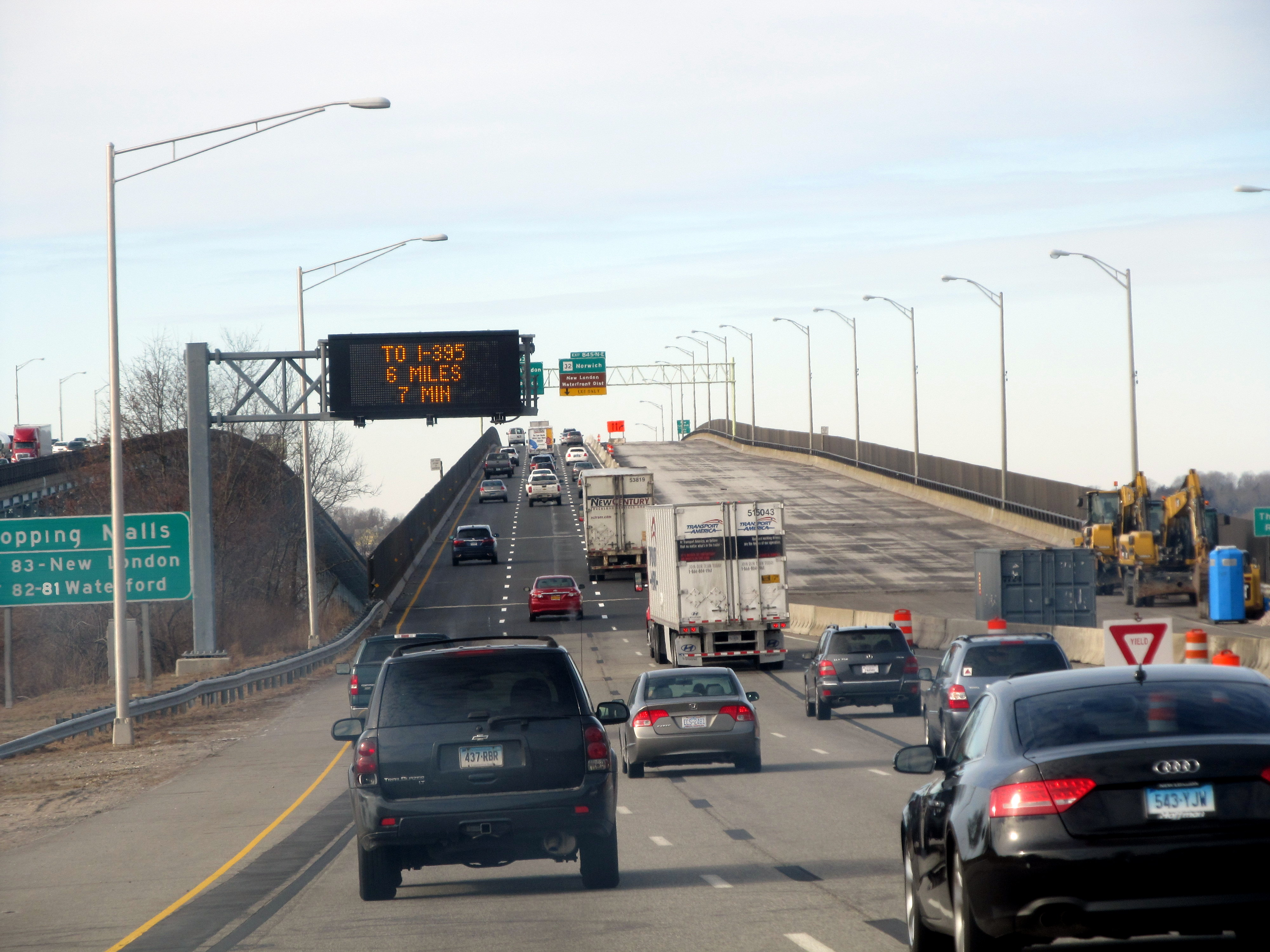 Southbound span of the Gold Star Memorial Bridge during reconstruction work in December 2017